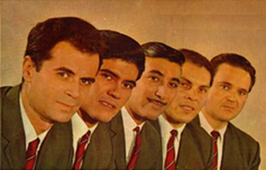 Los Trovadores del Norte. Argentina. Folk group. From left to right: Eduardo Gómez, Carlos Pino, Francisco "Pancho" Romero, Sergio "Chato" Ferrer y Bernardo Rubin.